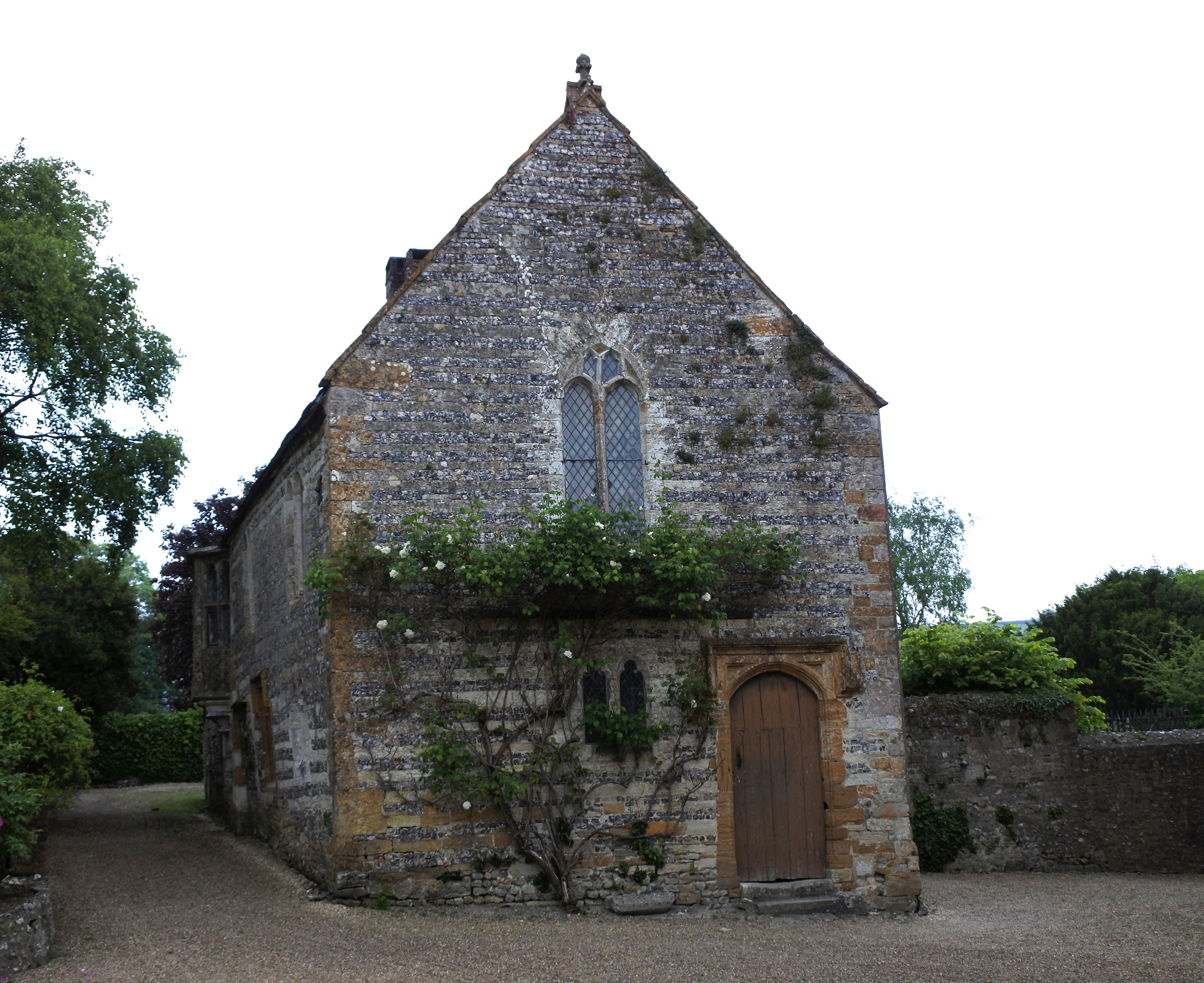 Cerne Abbey Guesthouse